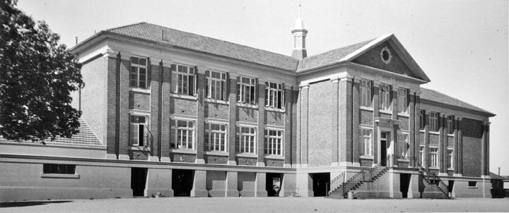 Bulimba State School, Brisbane. (Located at Oxford Street, Bulimba, Brisbane.)